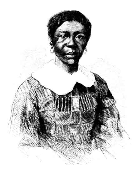 Photo of Harriet Robinson Scott.